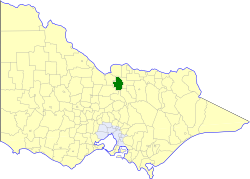 Location of the Shire of Rodney within Victoria.